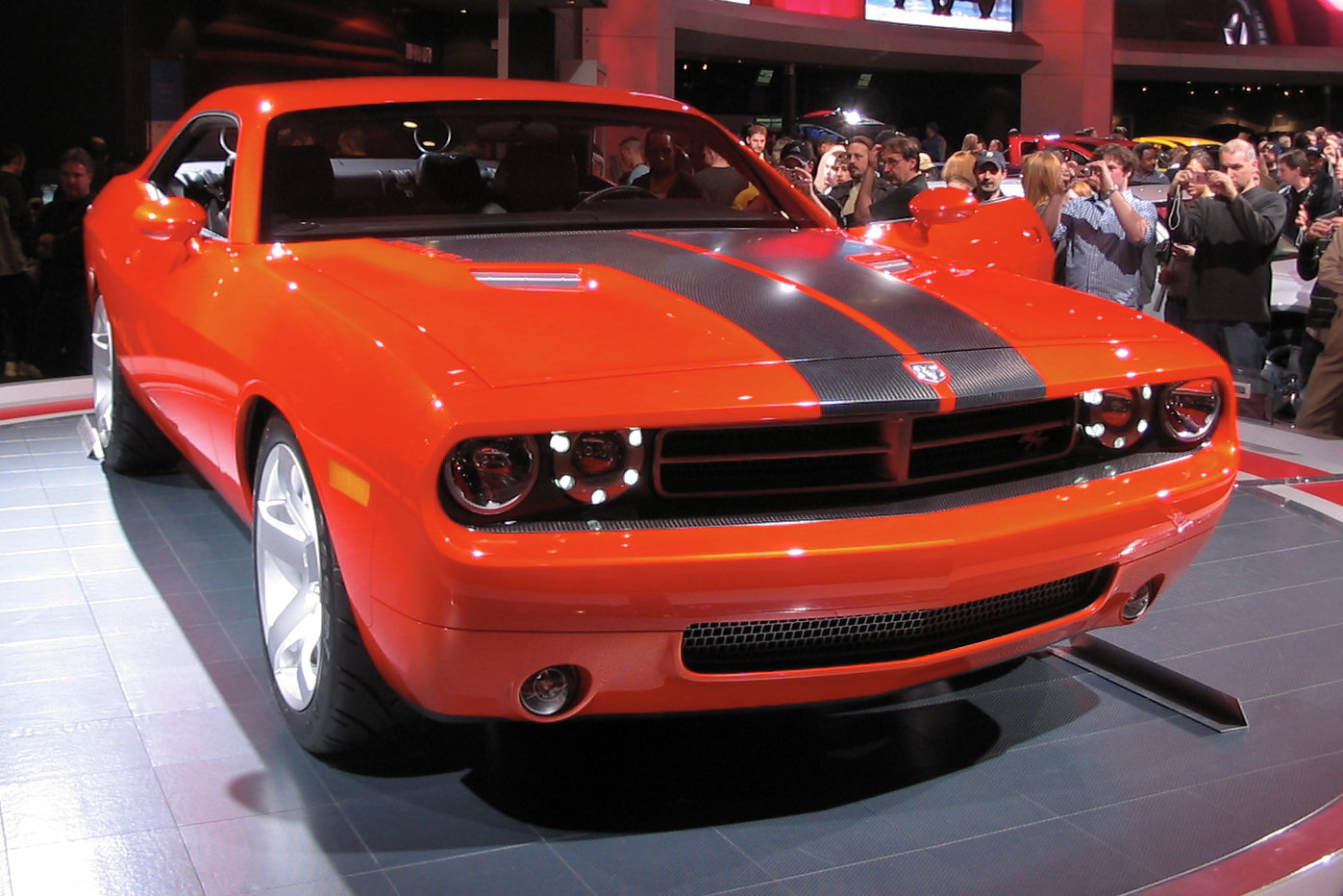 2009 Dodge Challenger concept car.